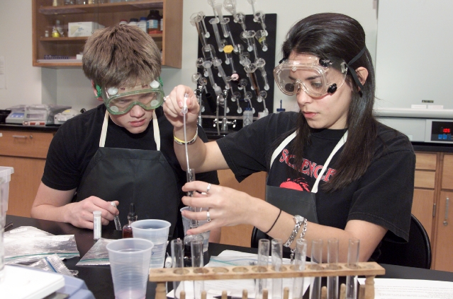 The first annual Gulf Coast Regional Science Olympiad, supported by NASA Johnson Space Center, Houston TX. It was held on Jan.31, 2004 at the University of Houston. Middle school and high school students were challenged to demonstrate their knowledge in a variety of science disciplines. The regional winners will be competing at the State level. Winners of the state tournament will join the winners from all 50 states to compete at the National Science Olympiad.